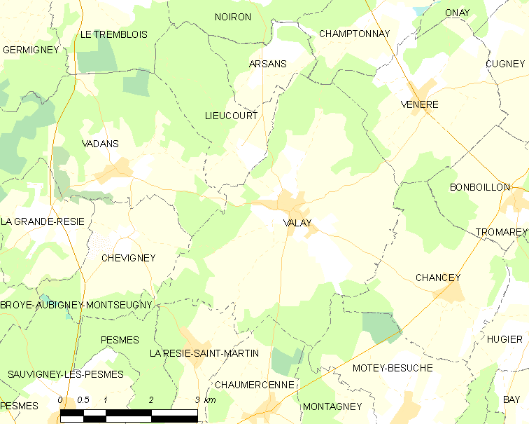 Map of French municipality